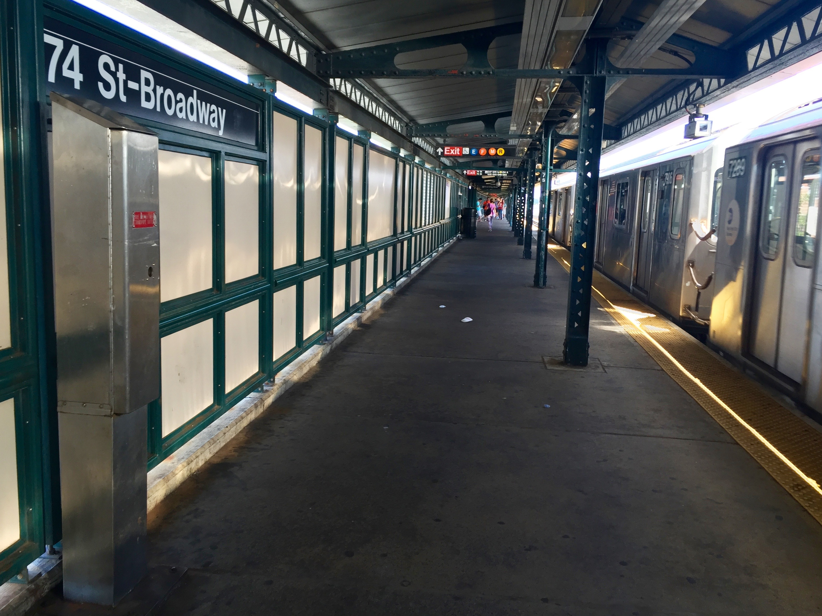 Manhattan bound platform at 74th Street - Broadway on the 7.